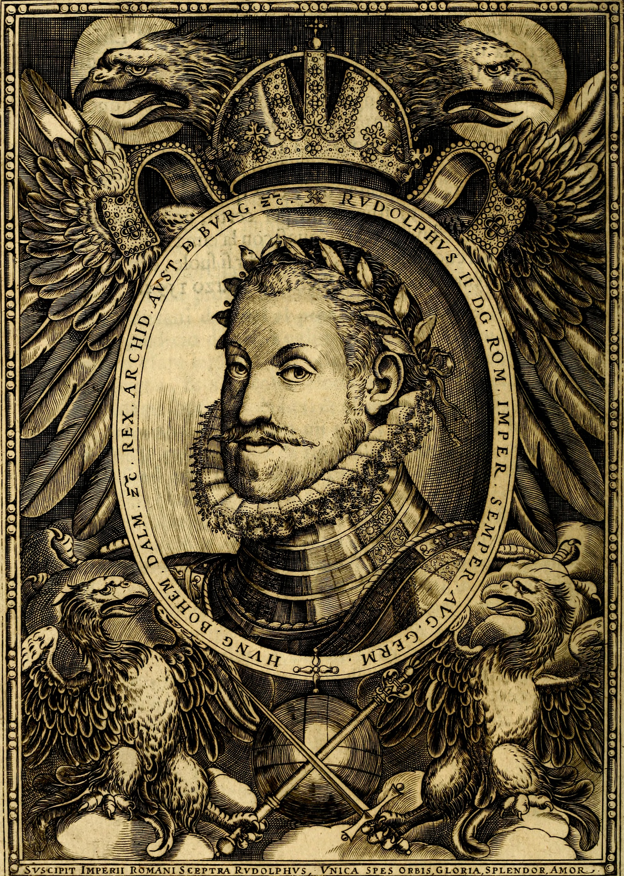 Title: Dell'imprese Year: 1594 (1590s) Authors: Bargagli, Scipione, d. 1612 Subjects: Emblems Devices (Heraldry) Publisher: Venetia, Appresso Francesco de' Franceschi Text Appearing Before Image: ^ Text Appearing After Image: I fcTSvS-ClPlT iMPERII ROMANI S CEPTRA R.VDOLPHVS, VN1CA 5PES O BB1S.G LORIA, SPLENE) OR, AMOR.J jjj